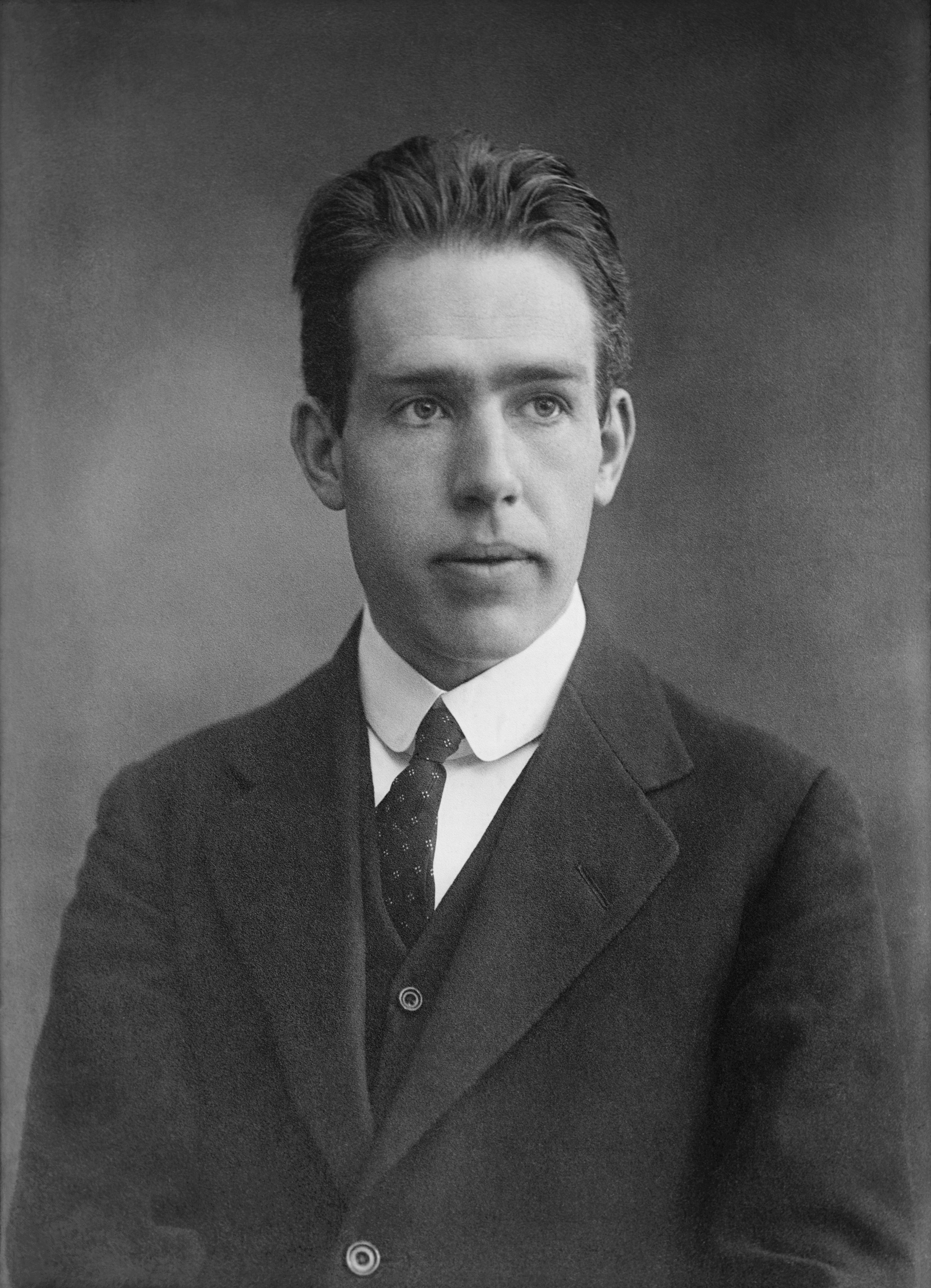 Title: Prof. Bohr Abstract/medium: 1 negative : glass ; 5 x 7 in. or smaller.